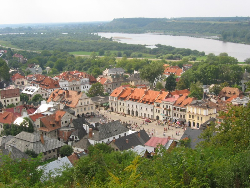 Kazimierz Dolny - view of market square, 2004